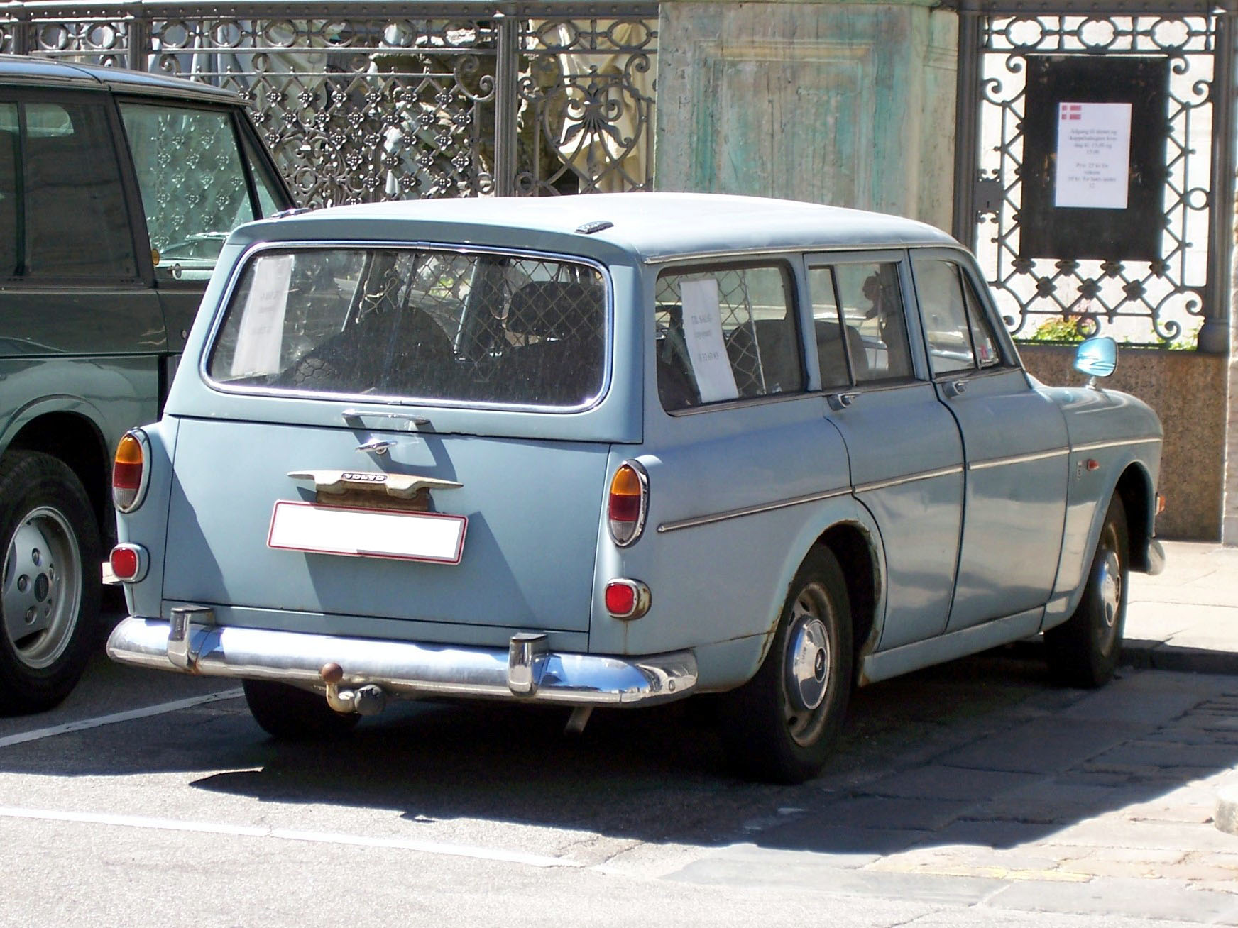 Volvo Amazon Break rear view